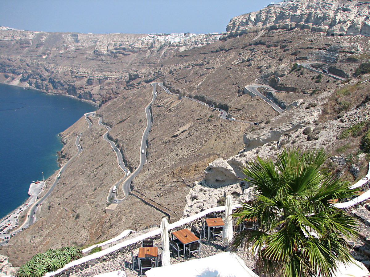 The winding road to Athinios port, August 2016